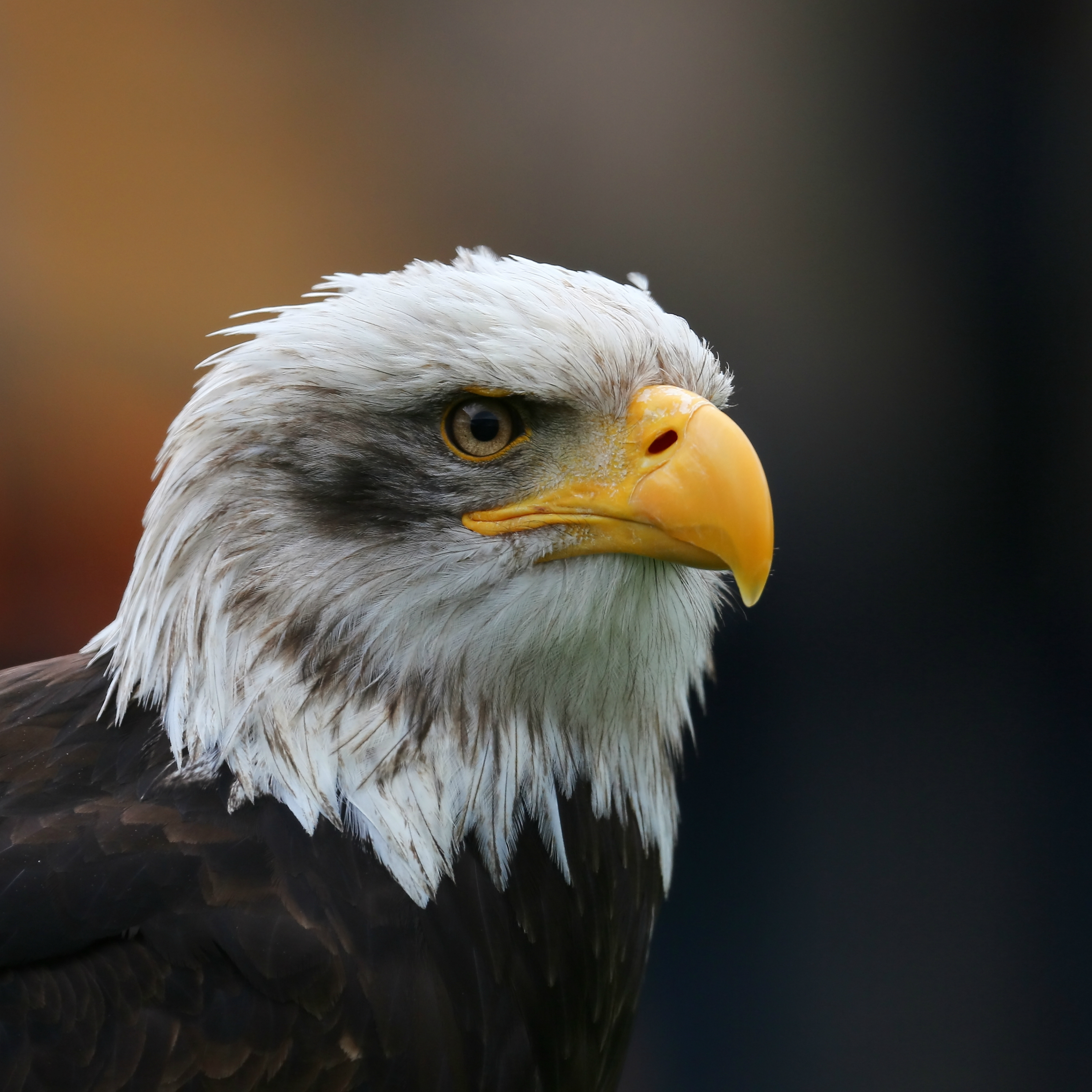 Head of Bald Eagle